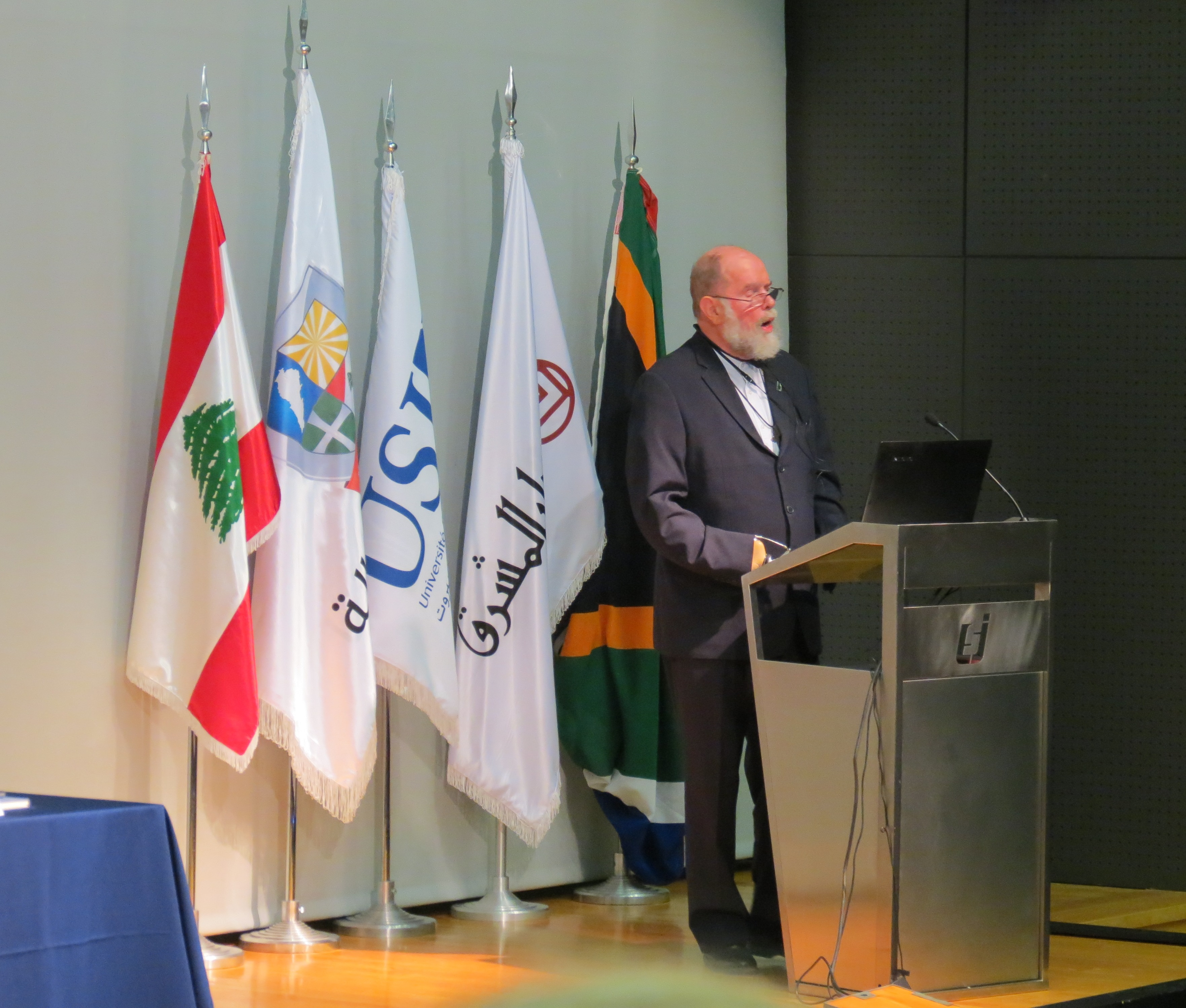 Father Michael Lapsley speaking at the Saint Joseph University in Beirut during the official presentation of the Arabic translation of his book "Redeeming the Past: My Journey from Freedom Fighter to Healer", in March 2017.